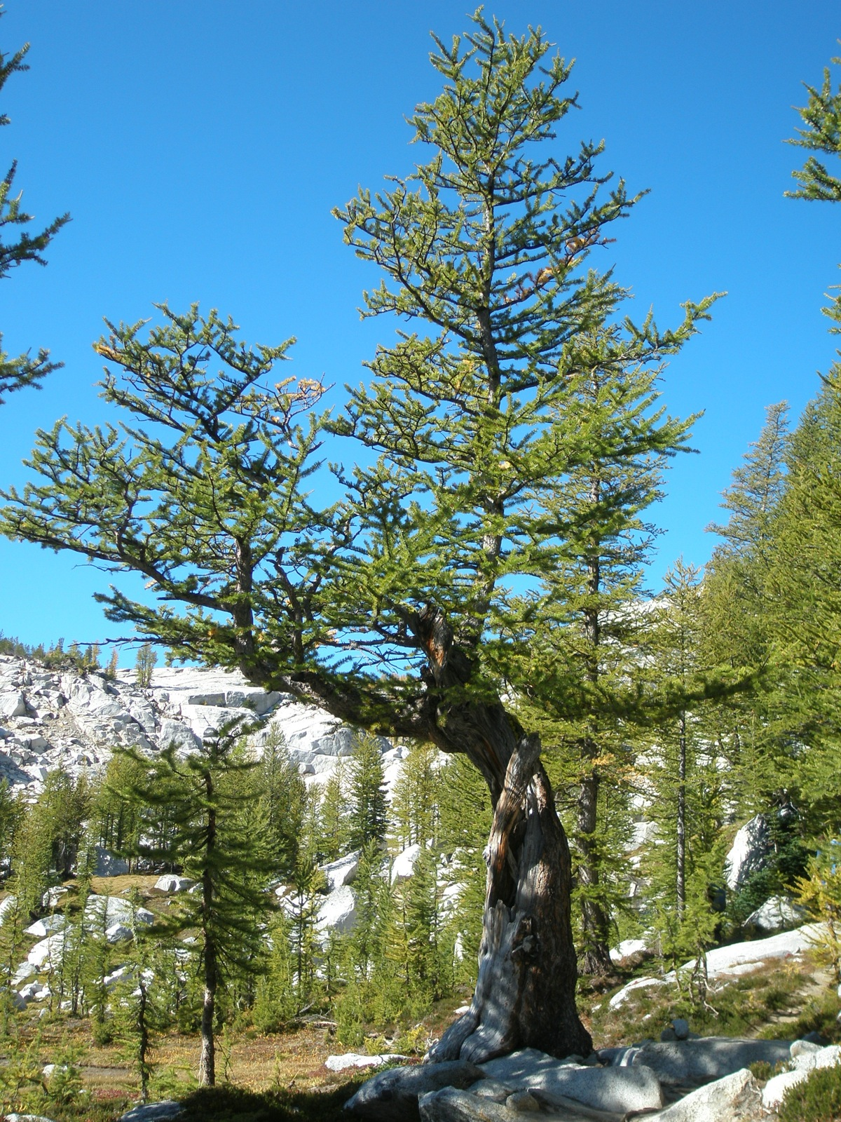 Larix lyallii, Rune Lake, Enchantments, Alpine Lakes Wilderness, Washington